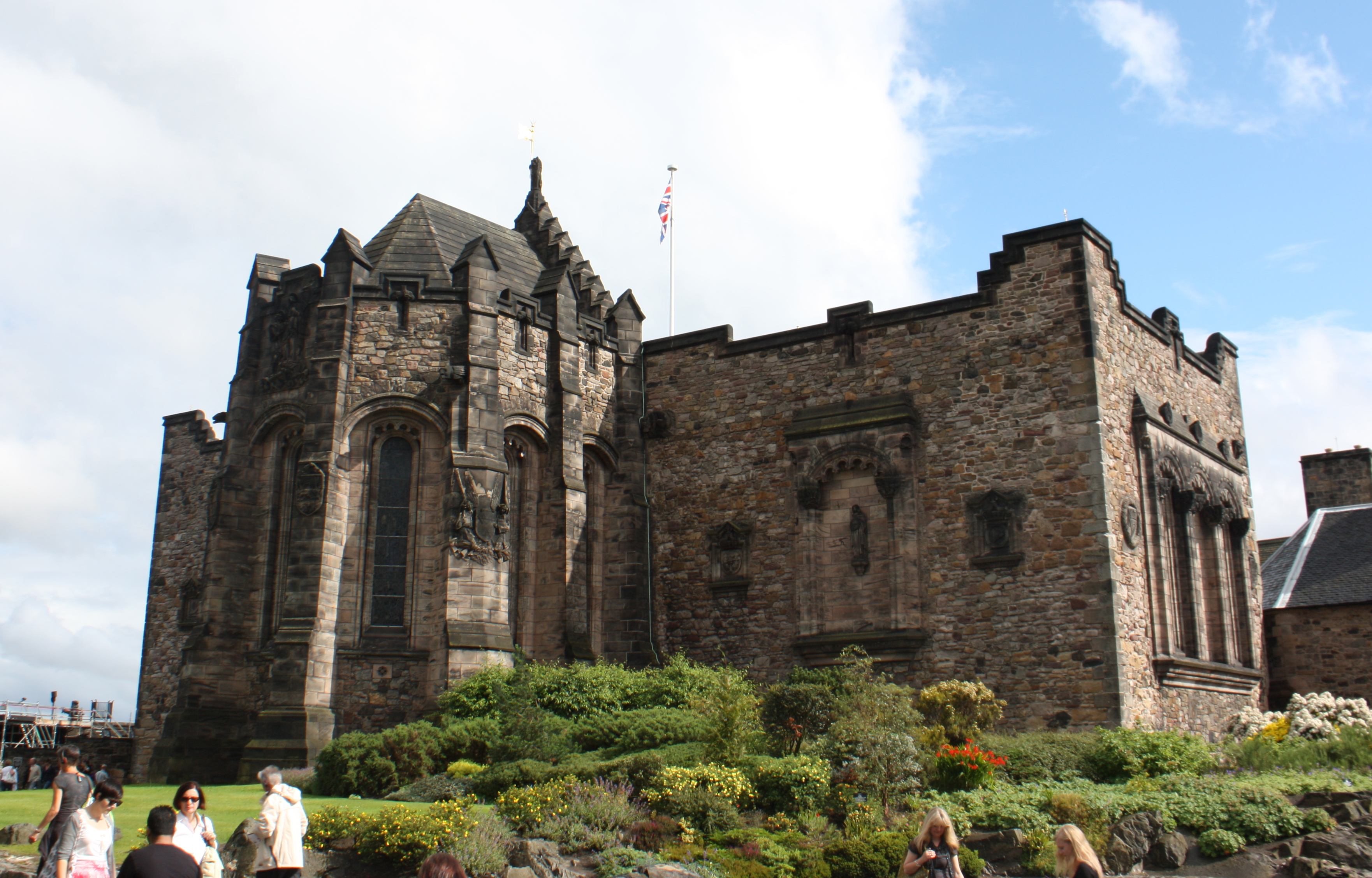 Scottish National War Memorial. Edinburgh Castle (Scotland).